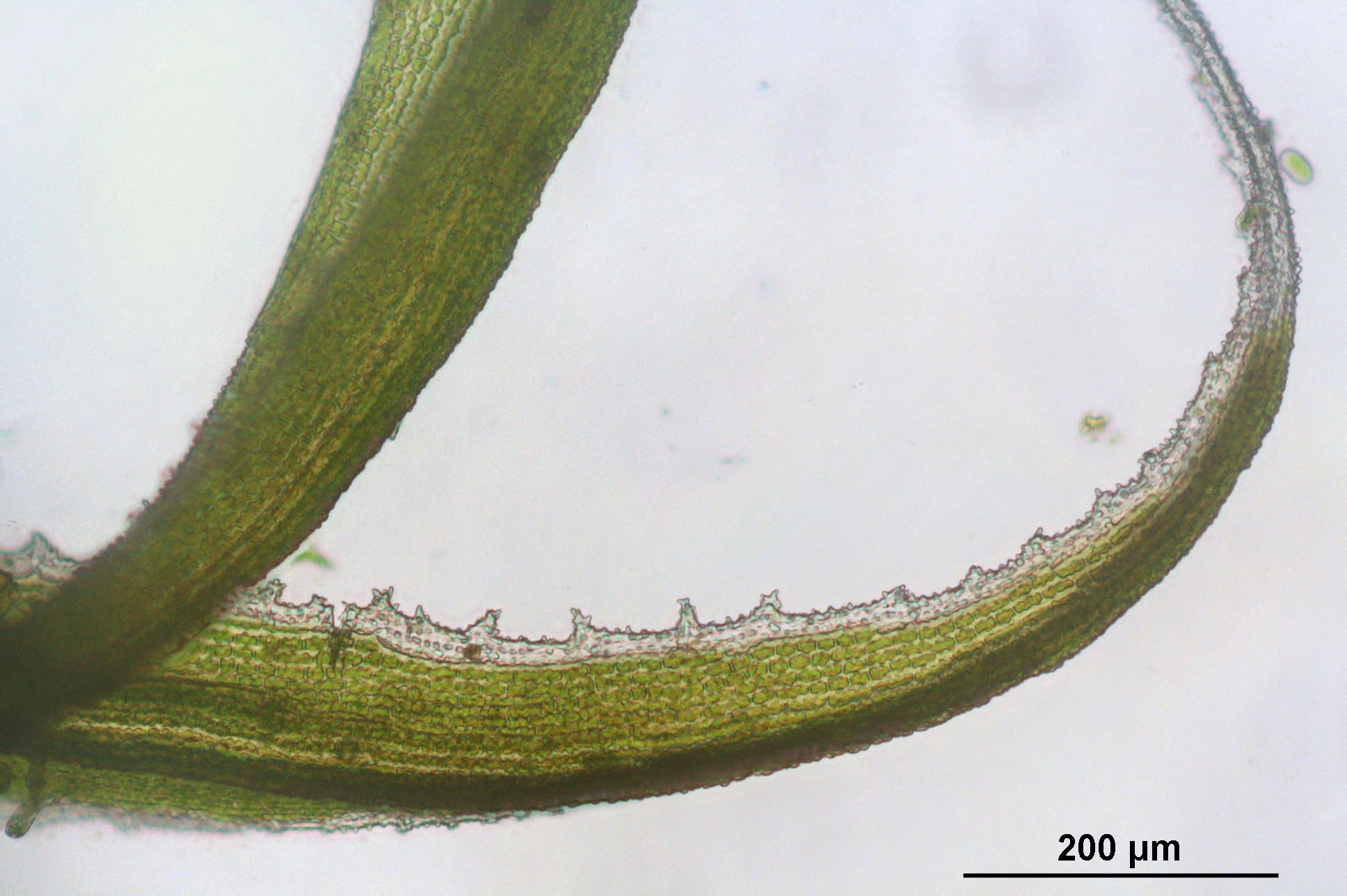 Racomitrium lanuginosum